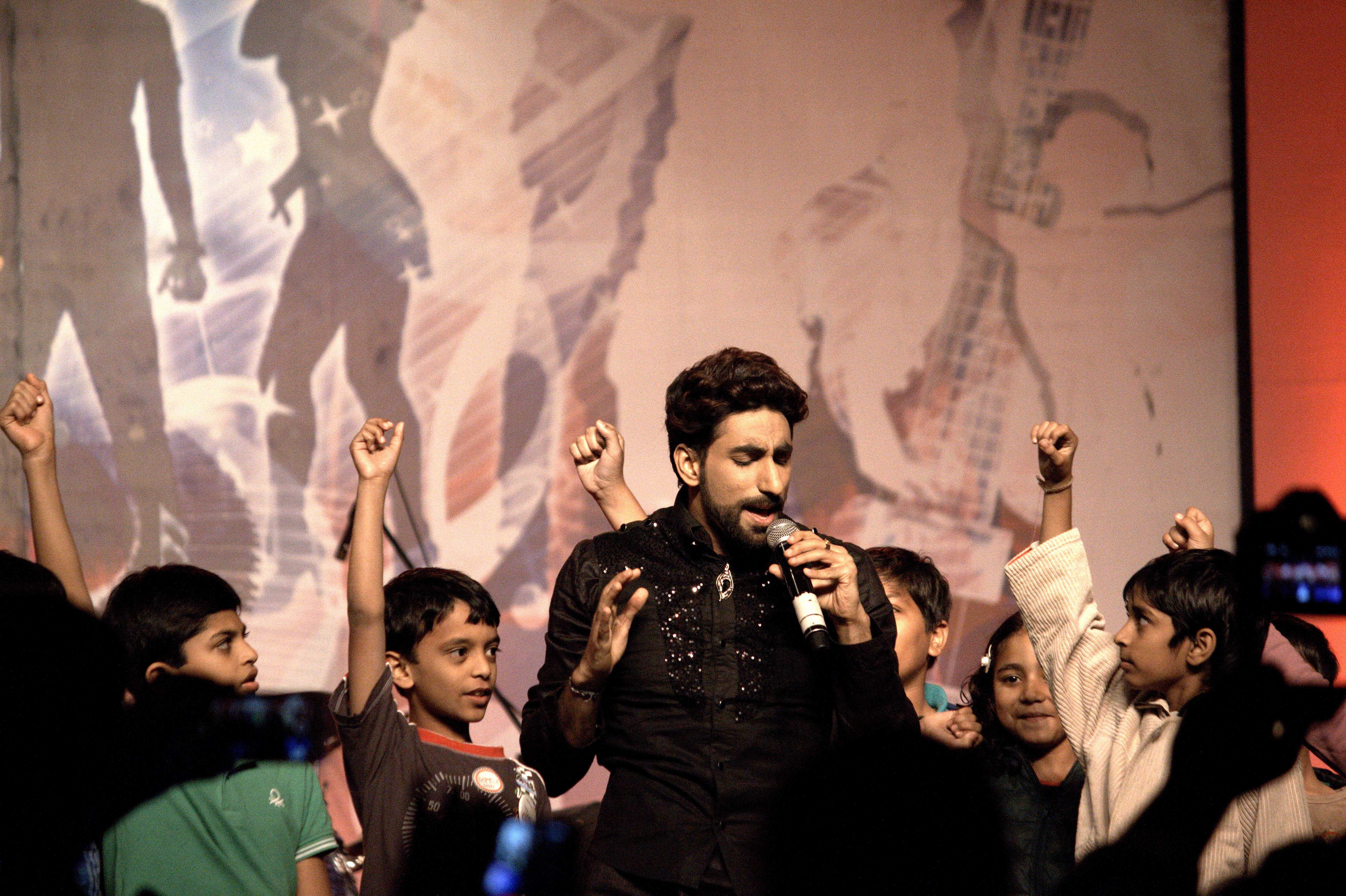 Karunya with the kids at RFC winter carnival